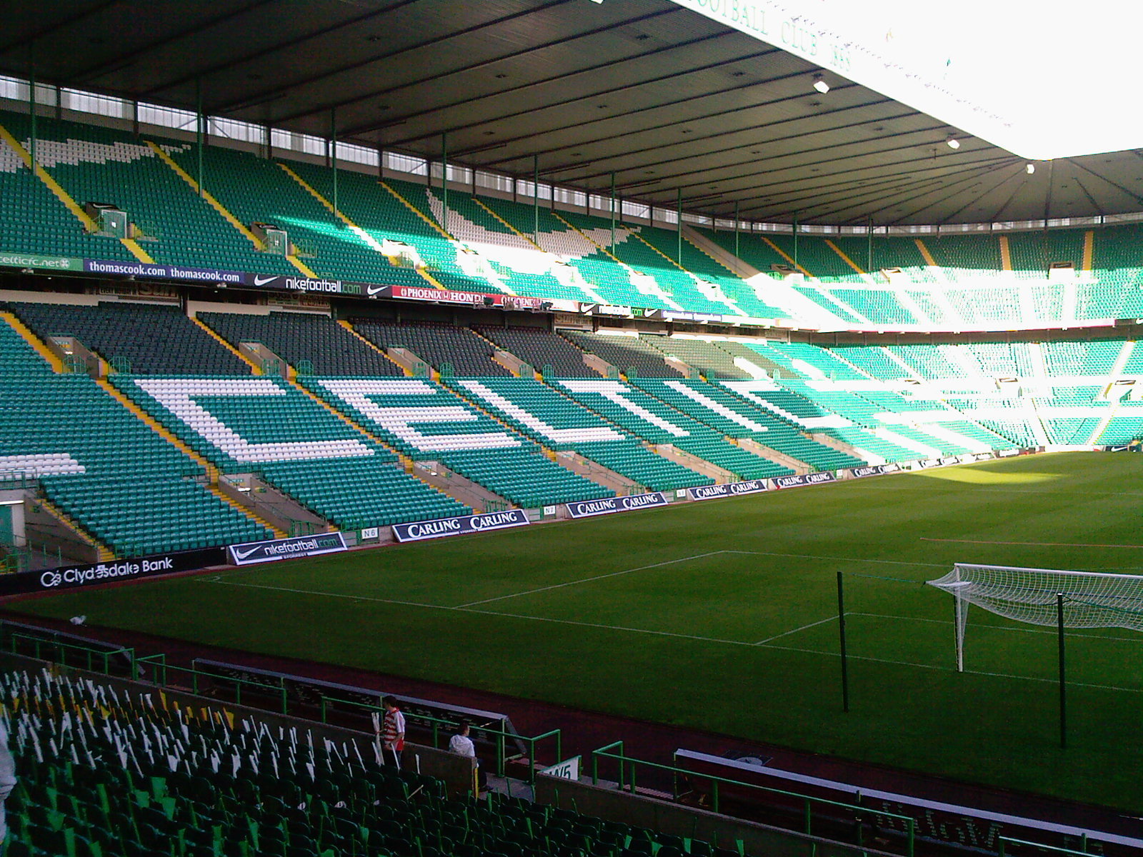 This photograph was taken by "celticfcuk" on Tuesday 28th August 2007 at 18:54 from the Jock Stein stand whilst participating in a flag display set-up